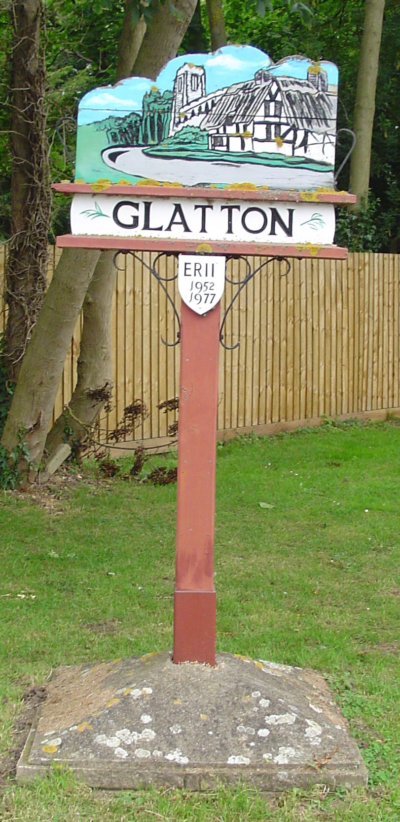 Signpost in Glatton